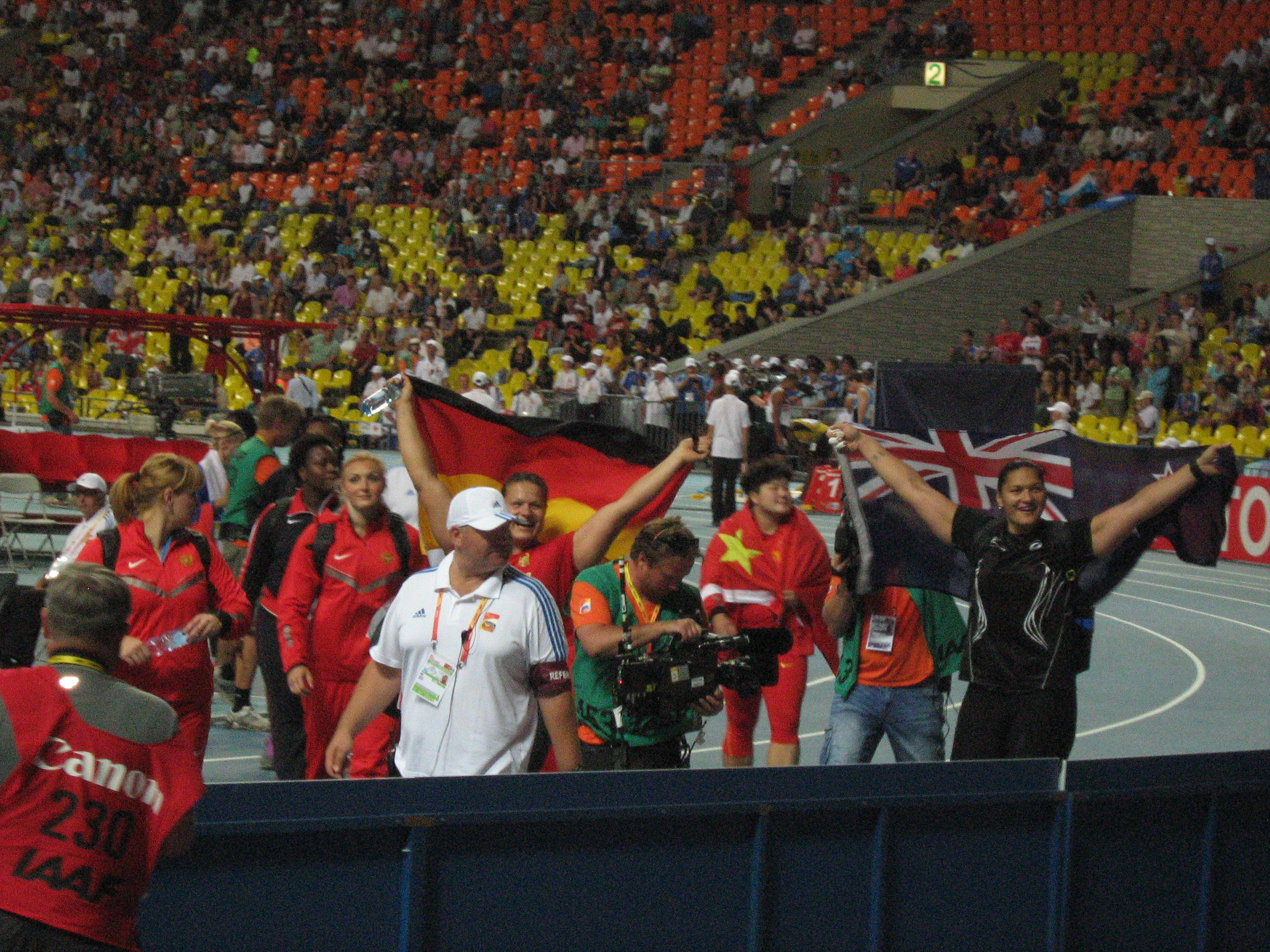 The second day of the World Championships in Athletics in Moscow 2013